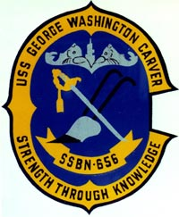 Insignia of the U.S. Navy ballistic missile submarine USS George Washington Carver (SSBN-656), adopted in 1966 when she was first commissioned.